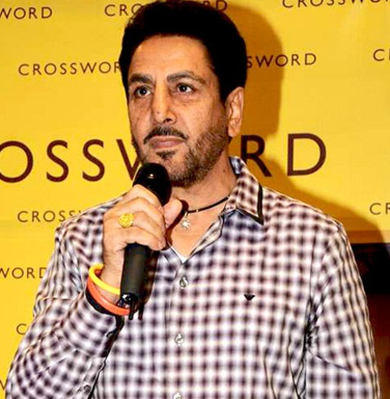 Gurdas Mann at Divya Dutta's mom Nalini's book launch